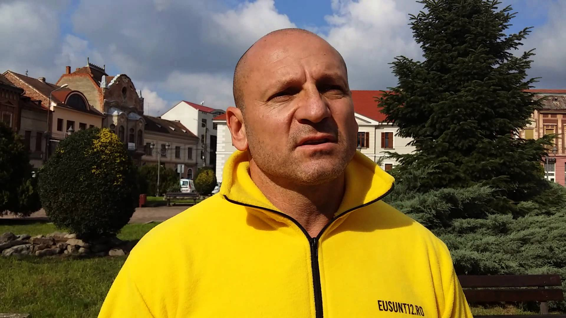 Bogdan Stelea